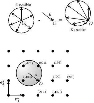 Ewald sphere: possible positions of the diffraction vector in the reciprocal space (fixed incidence).